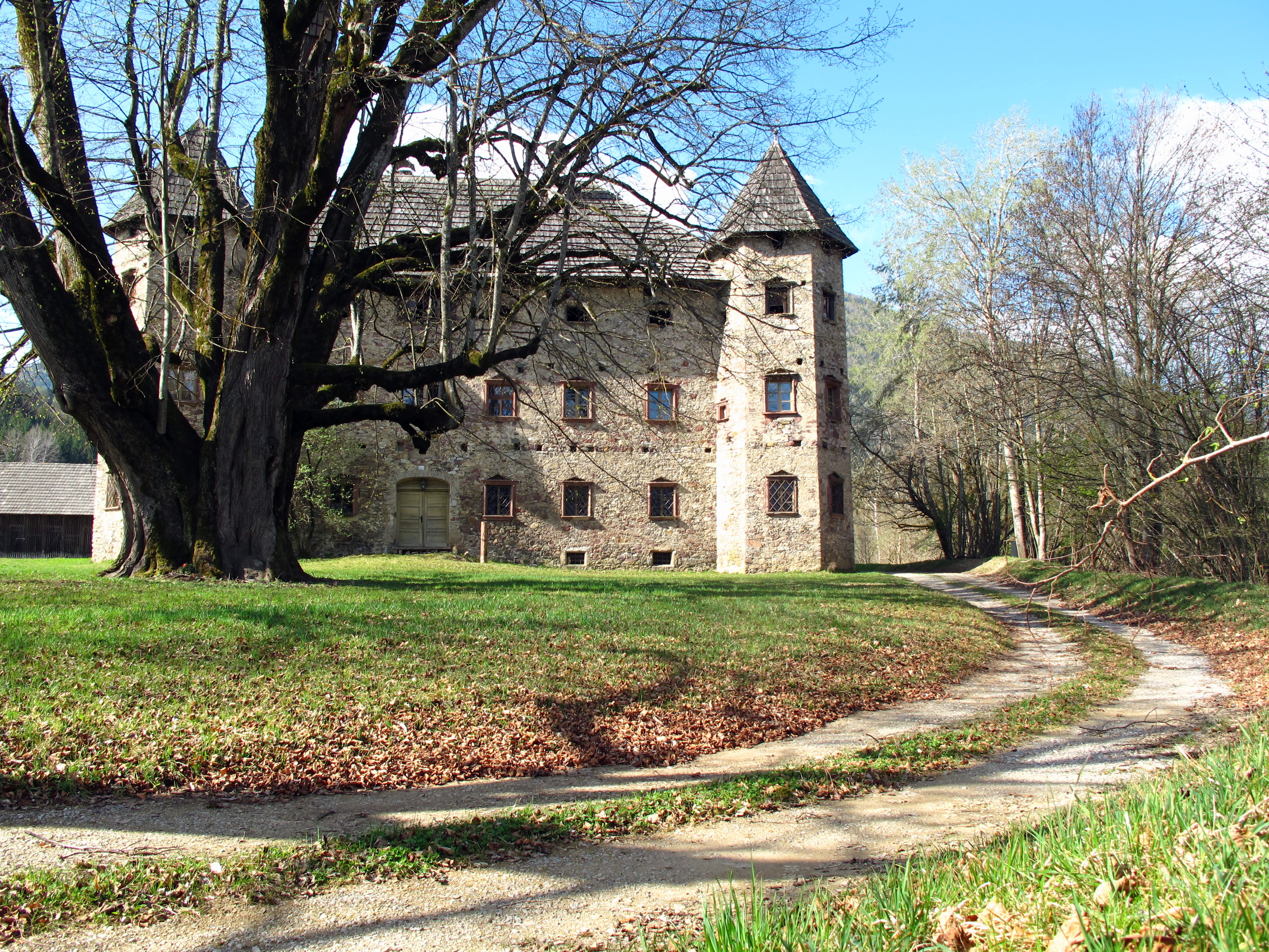 East and north side of Pöllan Castle, courtyard of an administrator, in Pöllan at Paternion around 2011, district Villach-Land in Carinthia / Austria / EU. The still not finished construction of rubble stone was built by Christoph von Haidenreich from 1598 to 1616. He was a Protestant administrators of the county Paternion, who was forced by the Catholics in Carinthia for sale and into exile. From 1616 the castle was owned by Moritz Christoph Khevenhüller. Since 1629 the castle is owned by the family Widmann, today the family Widmann-Foscari Rezzonico. This media shows the natural monument in Carinthia with the ID VL 15.